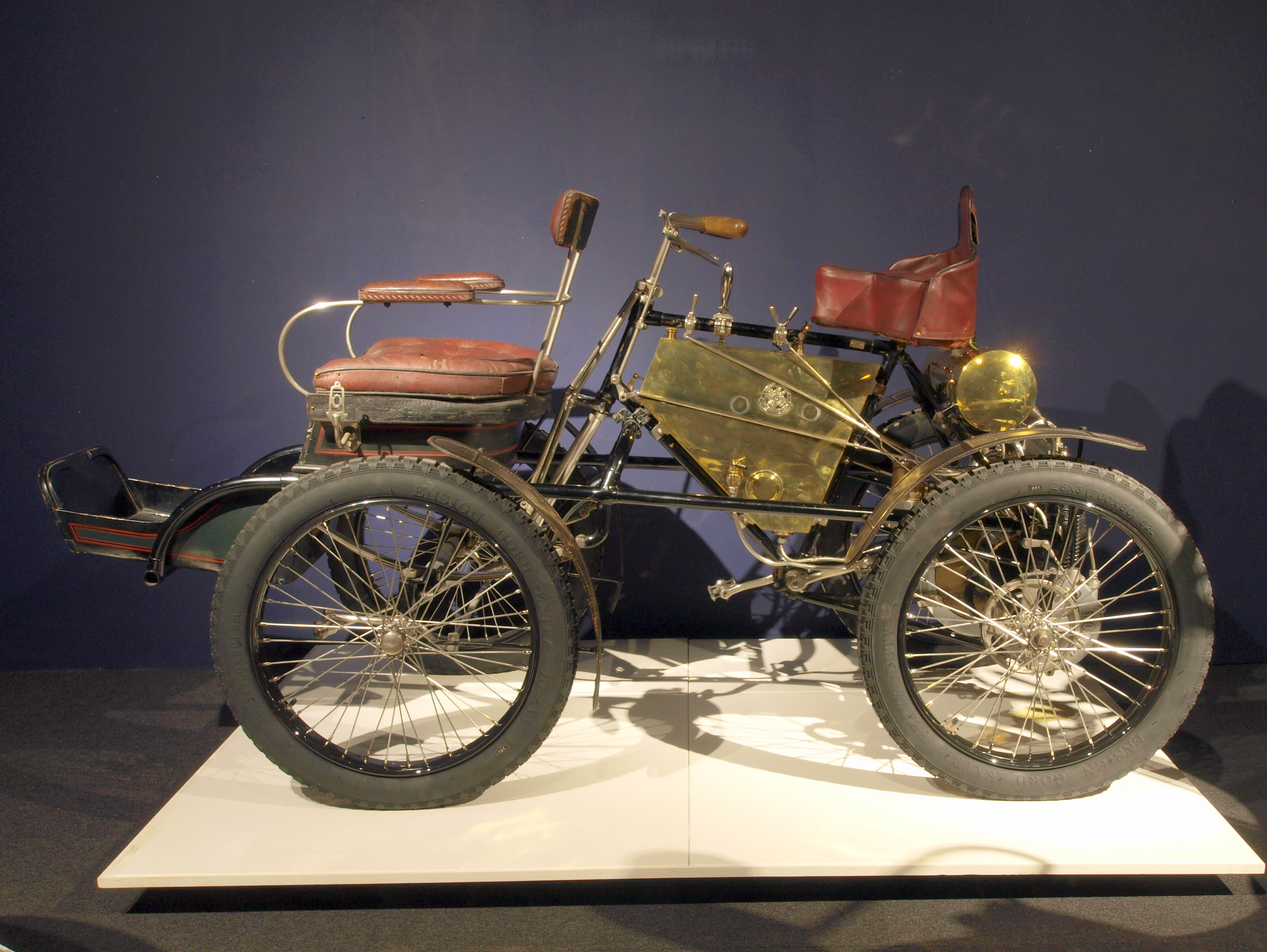 1900 De Dion-Bouton QuadricyclePhotographed at the Louwman museum, The Netherlands.